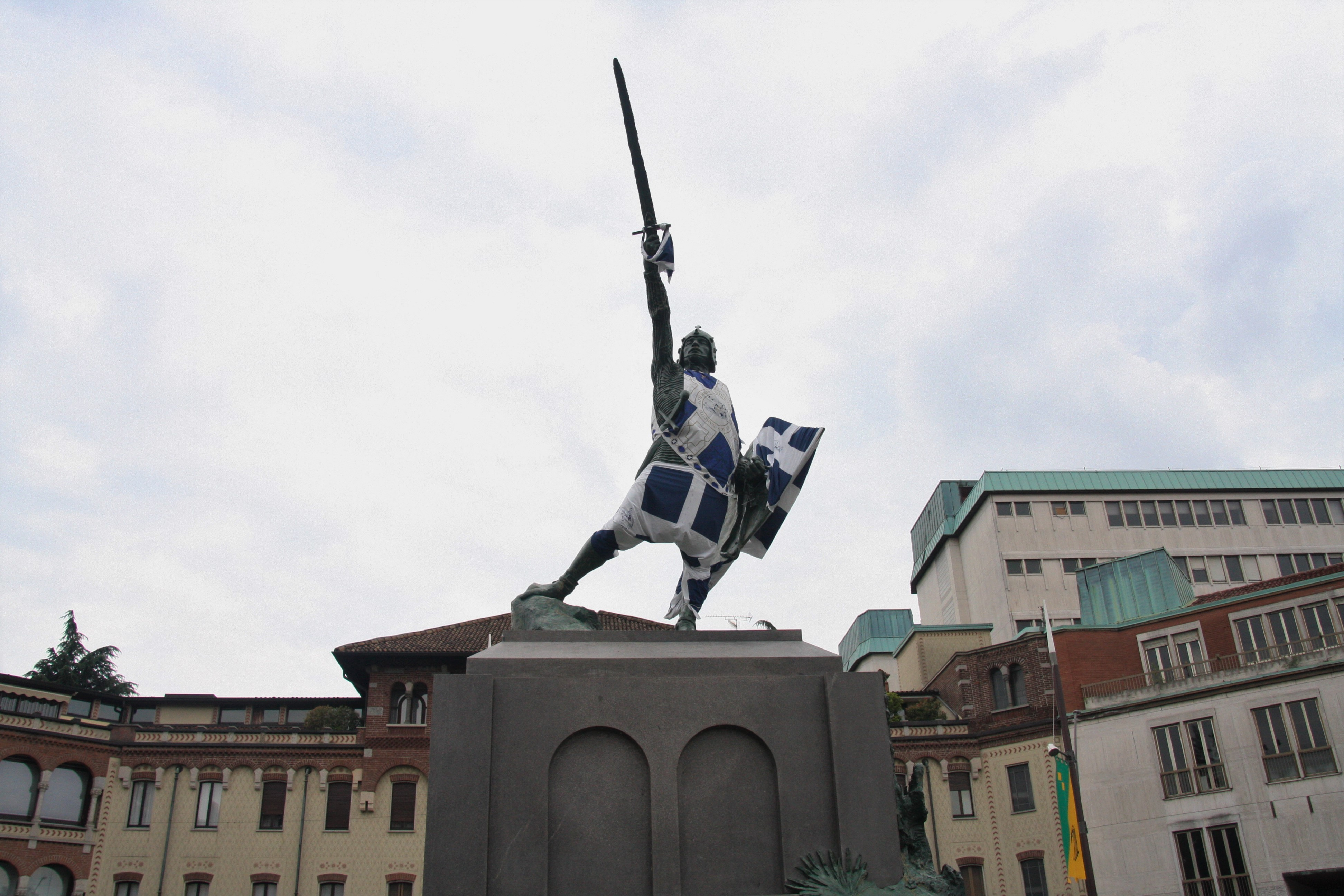 Picture of the monument Monumento al Guerriero (litterally: monument to the warrior. The statue is also known as the monument to Alberto da Giussano) in Legnano. The statue is dressed with the flags of the contrada (district/ward) "San Martino" which won the Palio di Legnano horse race in 2016. The statue is in the square Piazza Monumento in Legnano and was made by the sculptor Enrico Butti. The picture was taken on Juni the 1st 2016.